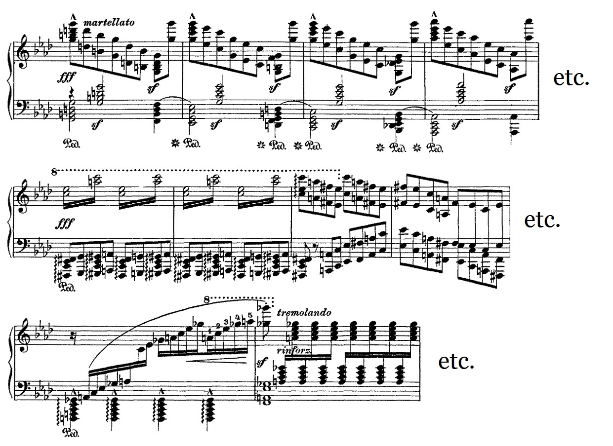 Fourth movement of Ludwig van Beethoven's Symphony No. 6 in F major (Pastoral), transcribed by Franz Liszt